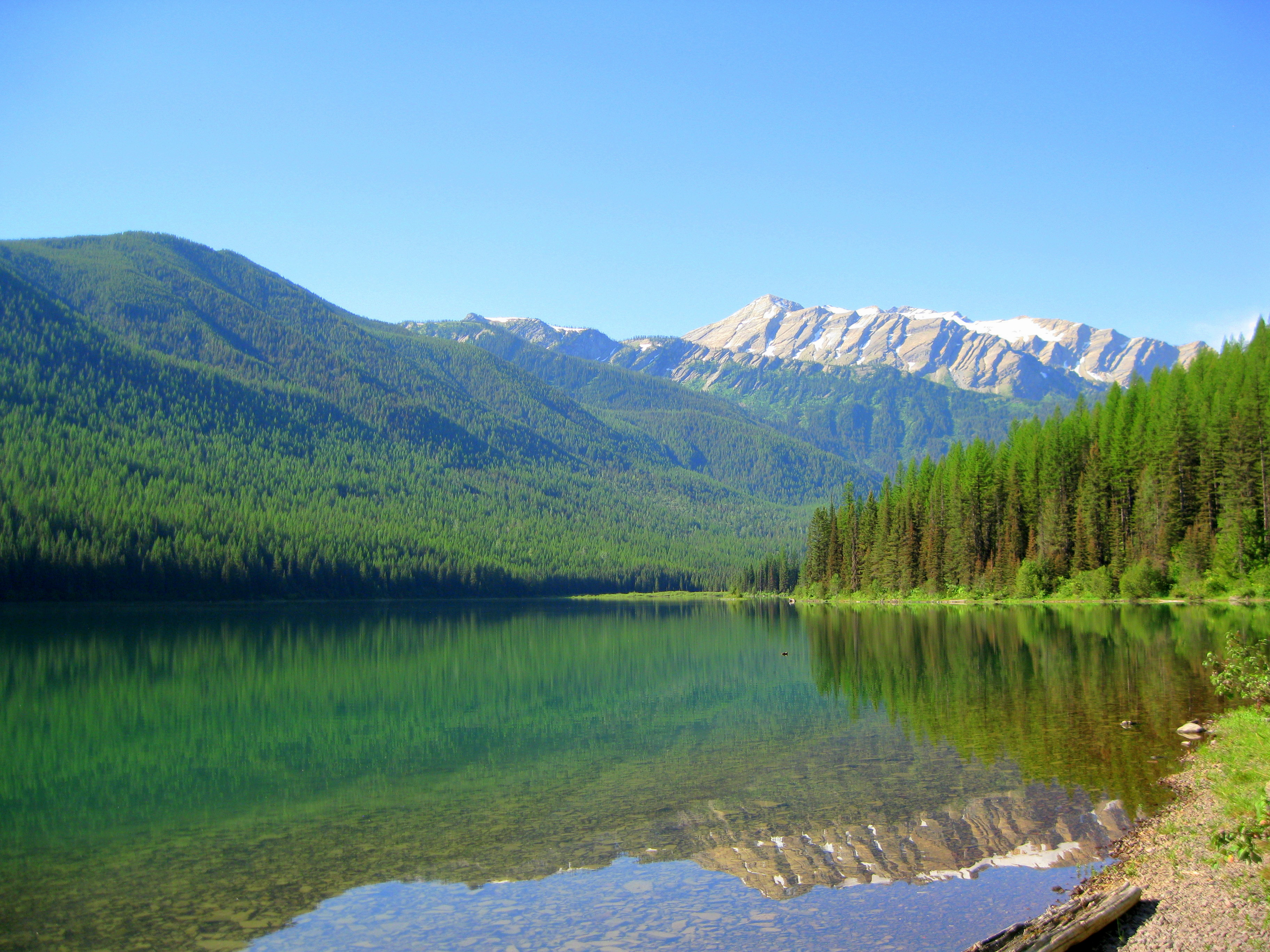 Hike along Trail #146 off of Hwy 2 and get to this beautiful sight in no time at all! This lake and mountain are in the Great Bear Wilderness on the Hungry Horse Ranger District. U.S. Forest Service photo by Chantelle Delay